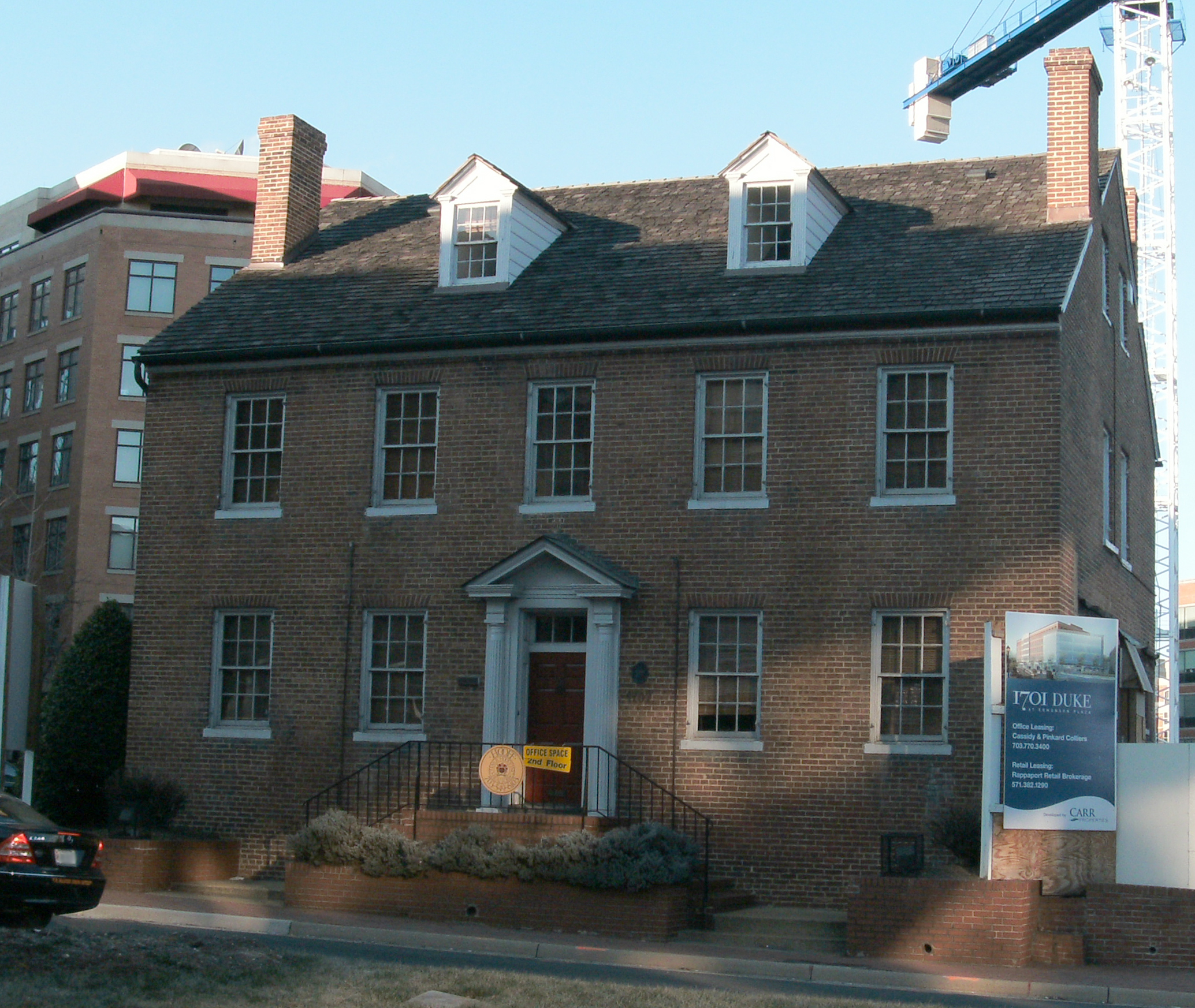 Cropped, lightened version of an image I took for Wikipedia